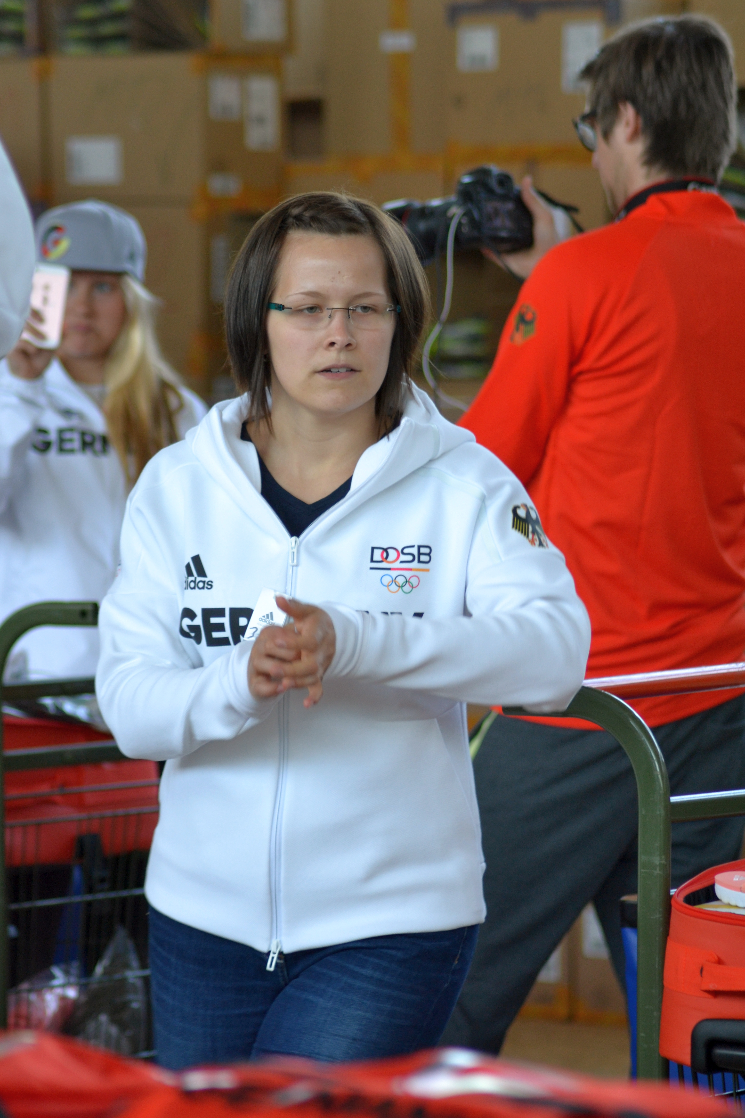 Media day of the clothing of the German Olympic team for Rio 2016 in the Emmich-Cambrai-Kaserne in Hanover. Pictured persons see Categories.